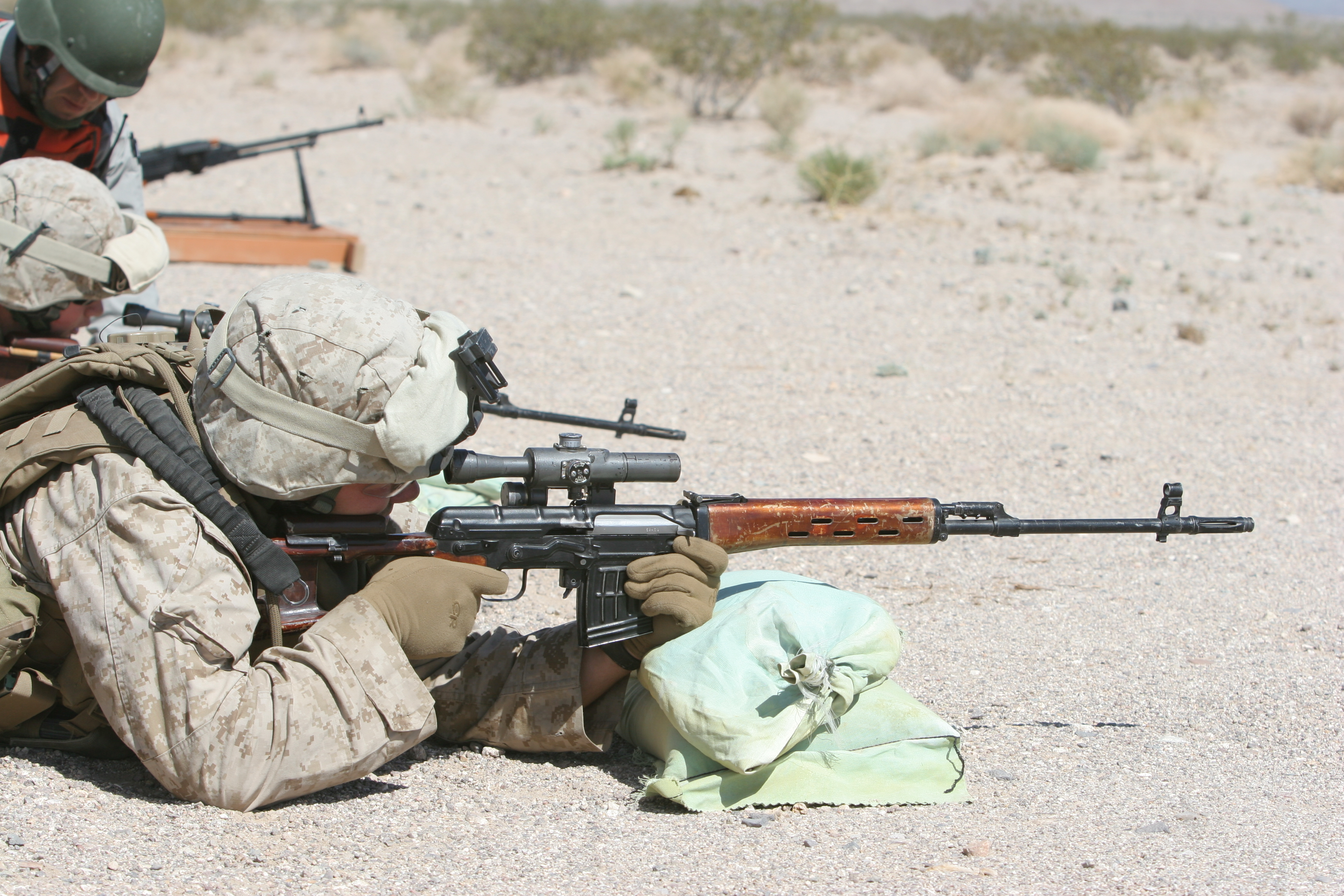 U.S. Marine Corps Lance Cpl. Cody A. Maxwell, right, with Motor Transport Company, Headquarters Battalion, 7th Marine Regiment, 1st Marine Division, receives instruction from his coach while firing a Dragunov sniper rifle at Marine Corps Air Ground Combat Center, Twentynine Palms, Calif., May 6, 2009. The Marines are taking part in training exercise Desert Scorpion and are familiarizing themselves with weapons found in Iraq and Afghanistan.